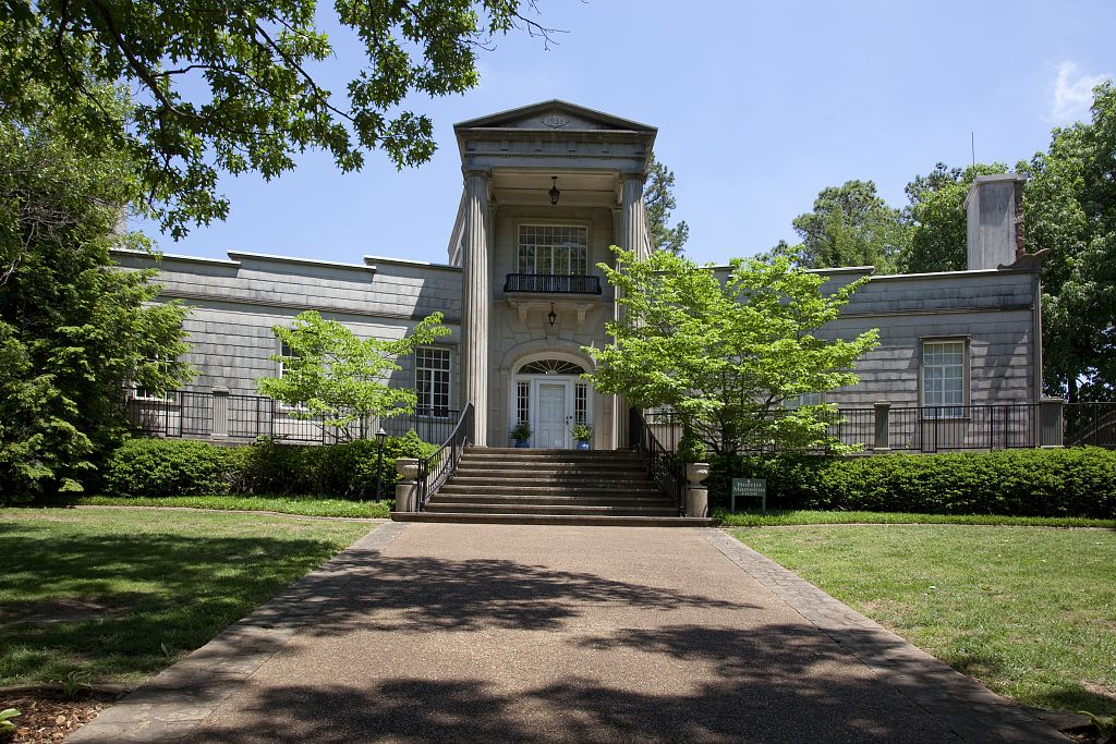 The William Burritt Mansion on Monte Sano in Huntsville, Alabama